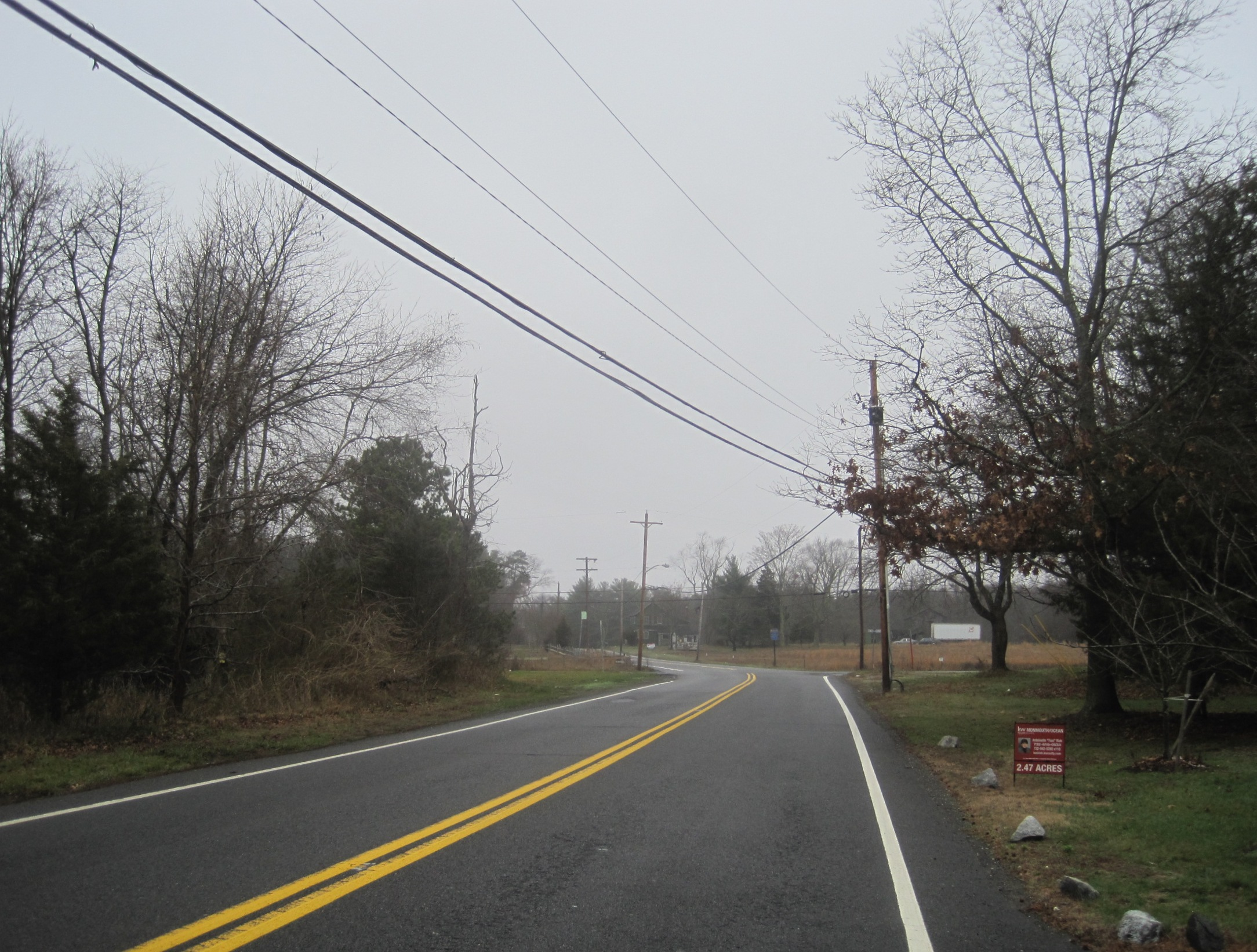 Photo of Siloam, New Jersey, an unincorporated community within Freehold Township. Photo taken looking north along County Route 527 approaching Ely Harmony Road.